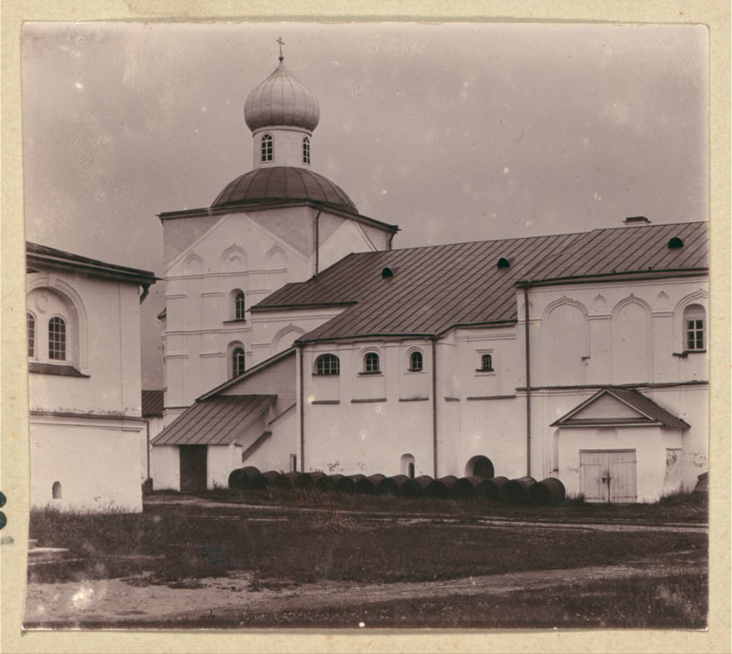 Pokrovsky Sobor in the Aleksandr Svirskii Monastery. General view.